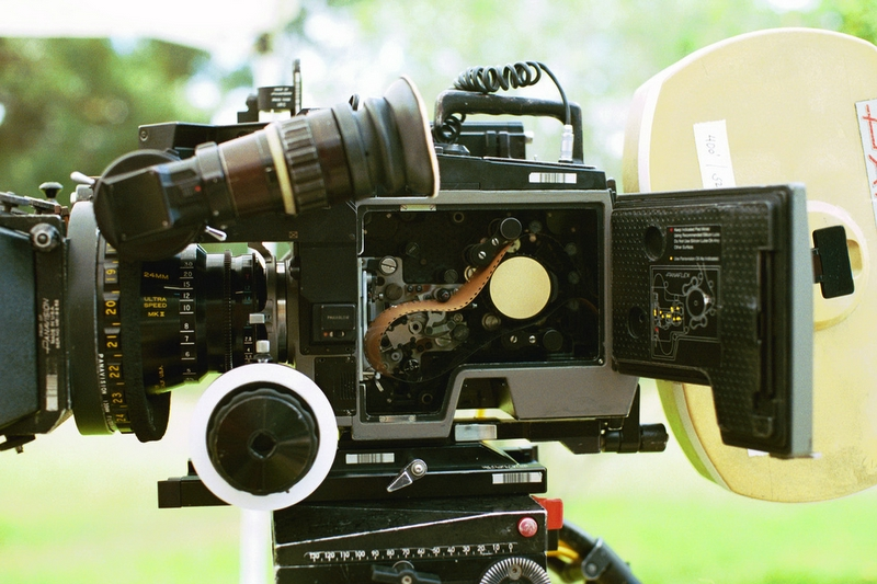 GII Golden Panaflex® GII Camera System, Film, Movie Camera, Motion Picture, Movie, 35mm, Panavision, Panaflex, G2